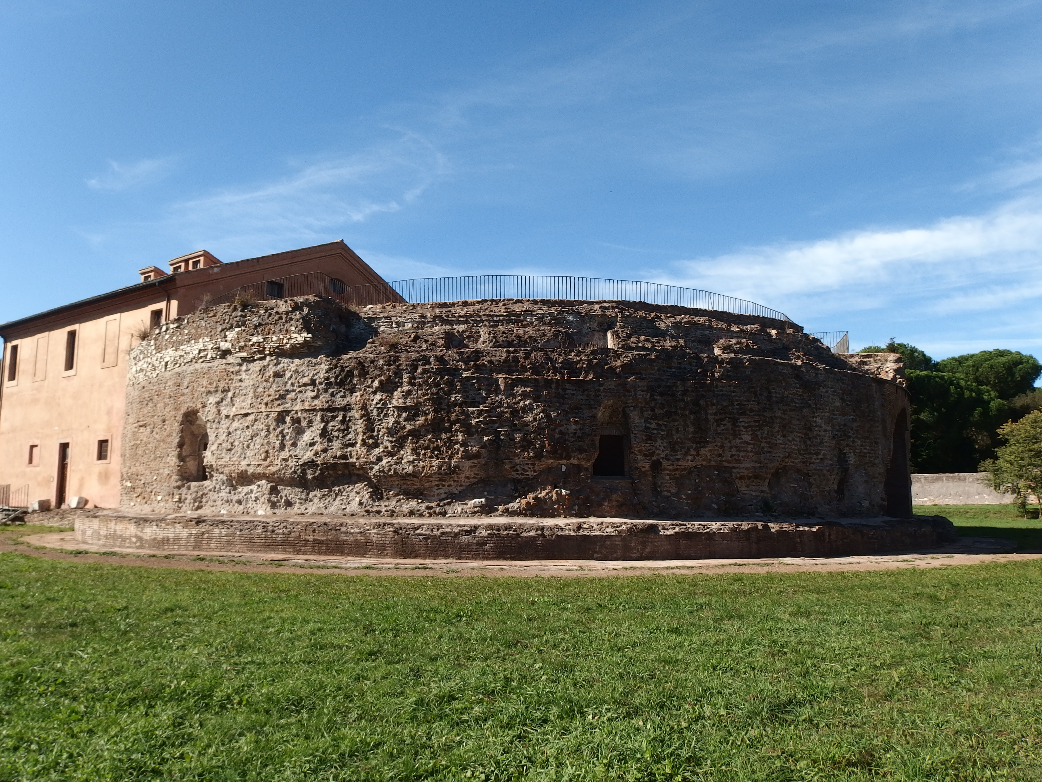 Rome, Italy. Via Appia Antica, Villa of Maxentius, Mausoleum of Valerius Romulus.